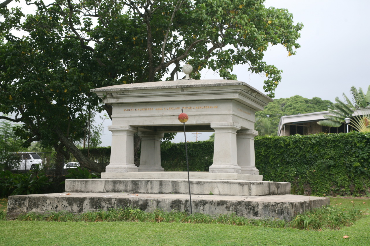 "Mr. Robert C. Wyllie was from Scotland, and he arrived in Hawai‘i in 1840, and became very close with the Kamehameha family, serving three Kamehameha Kings--King Kamehameha III, IV and V--in various government capacities. Mostly he was Foreign Minister of Hawai‘i. And he helped Hawai‘i with making treaties between the world powers at that time, and having them recognize Hawai‘i’s independence and sovereignty, signing these treaties with France, Germany, and England, the United States. So Mr. Wyllie was an actual family member of the Kamehamehas.